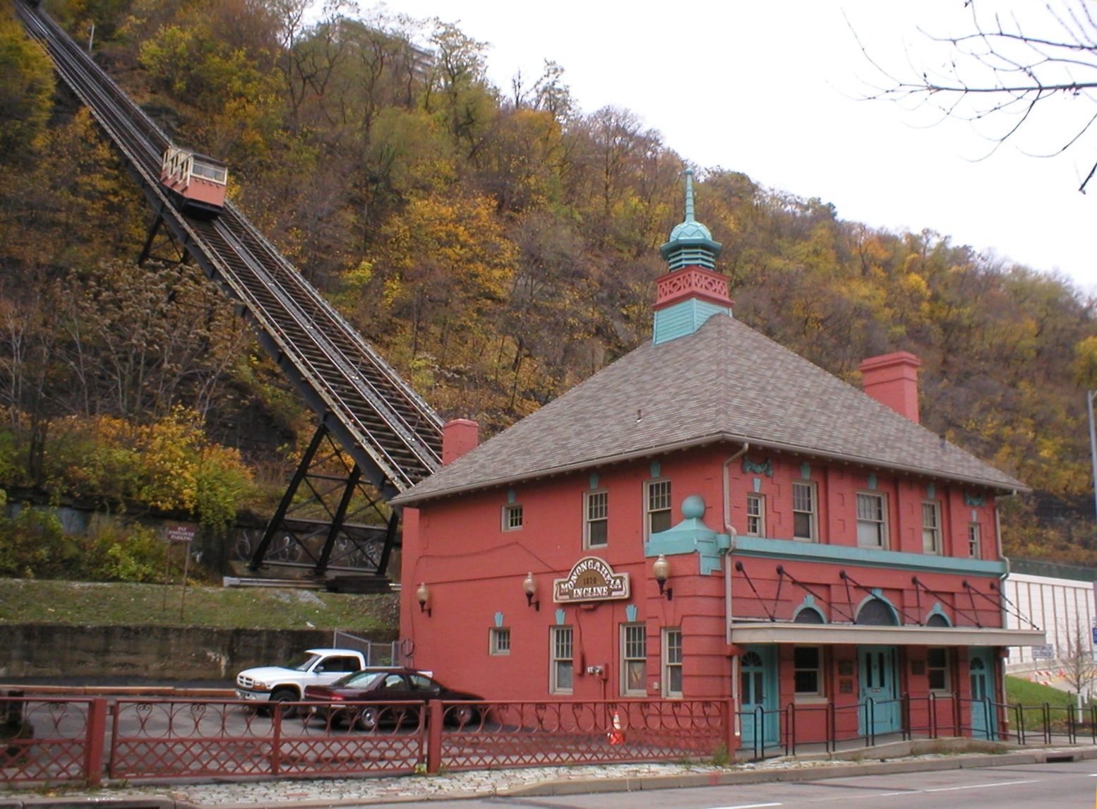 S. Clery: Original digital image, Monongahela Incline, Pittsburgh, Nov 2006